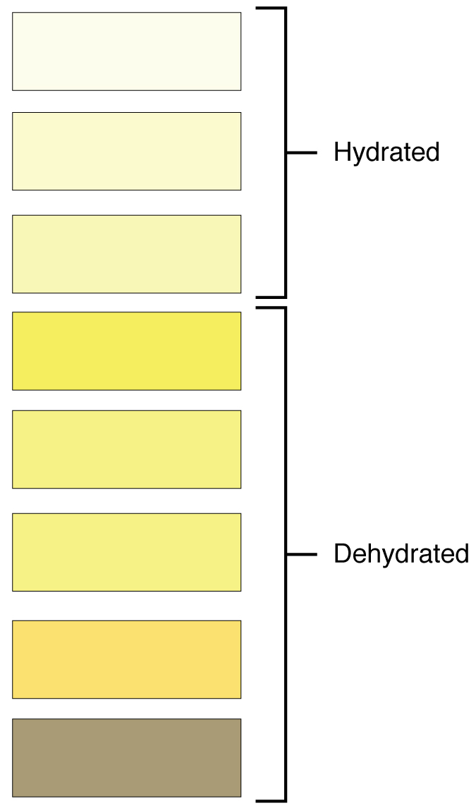 Illustration from Anatomy & Physiology, Connexions Web site. Jun 19, 2013.